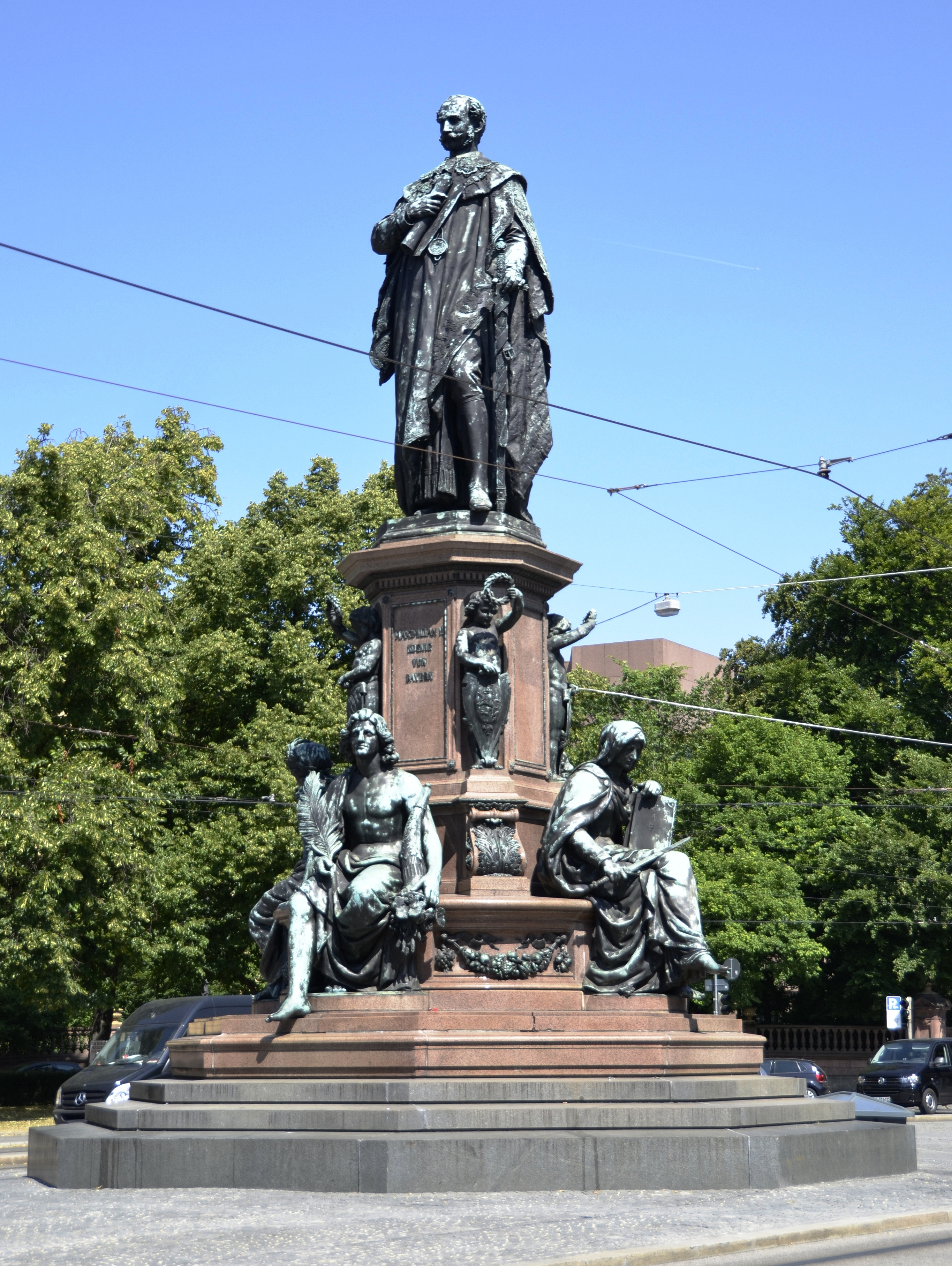 The Maxmonument in Munich, Bavaria.